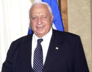 Ariel Sharon. Edited from State Department photo by Michael Gross.